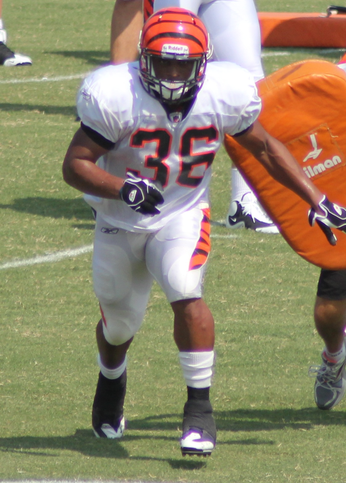 RB Cordera Eason (rookie from Mississippi) at Cincinnati Bengals training camp in 2010.